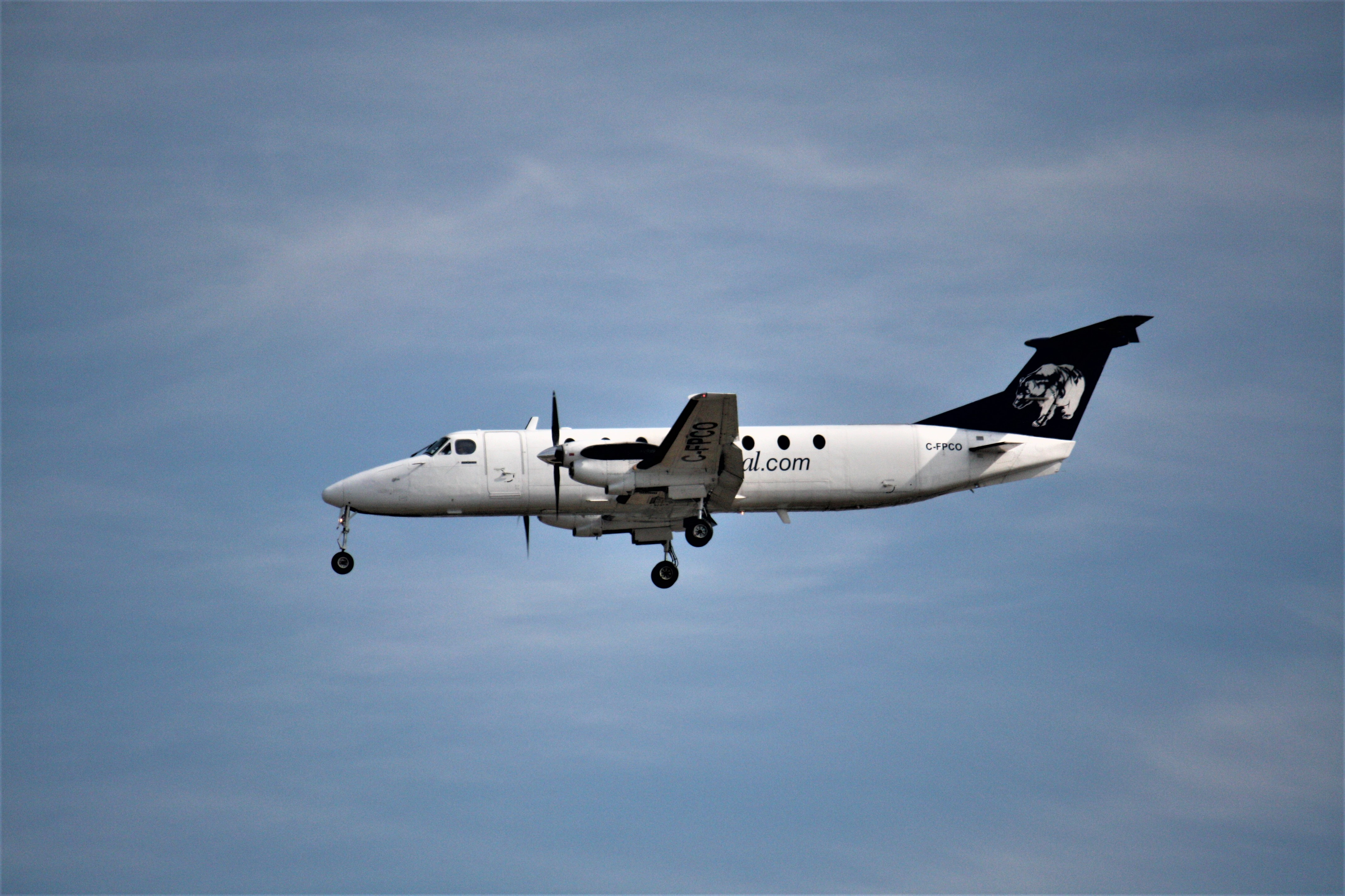 A Pacific Coastal Airlines Beechcraft 1900C, tail number C-FPCO, landing at Vancouver International Airport